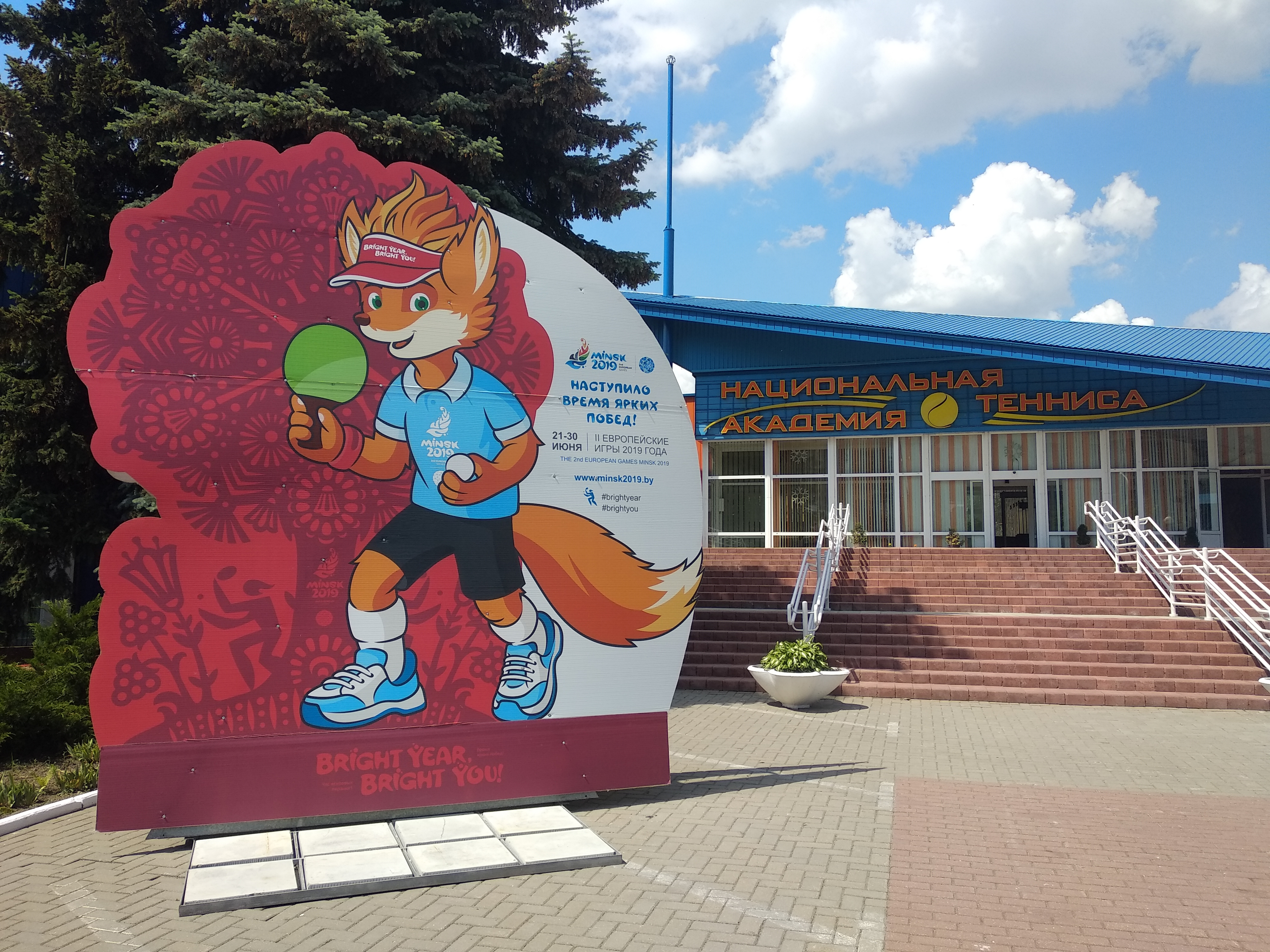 Belarus Olympic Tennis Training Center on the eve of the 2019 European Games